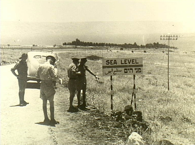 Lake Tiberias, Palestine. 1941-03. Australian Army officers on a tour of inspection of the flat country near the lake. The notice board indicates that the area is several feet below sea level. Tiberias